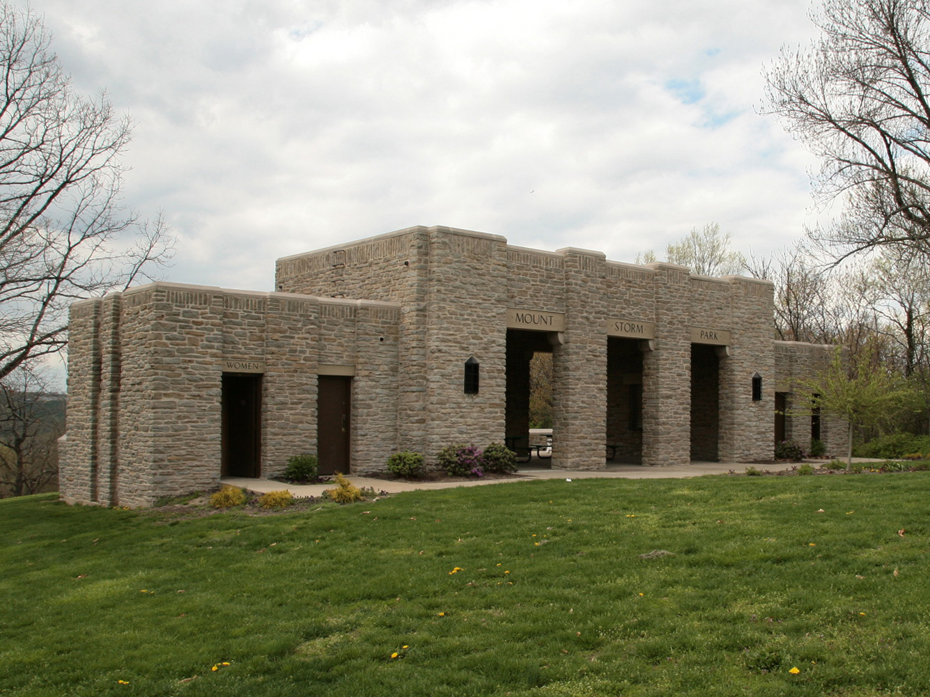 Shelter at Mount Storm Park built in 1935. Photo taken by Greg Hume (talk) 18:49, 20 April 2008 (UTC) on April 19, 2008